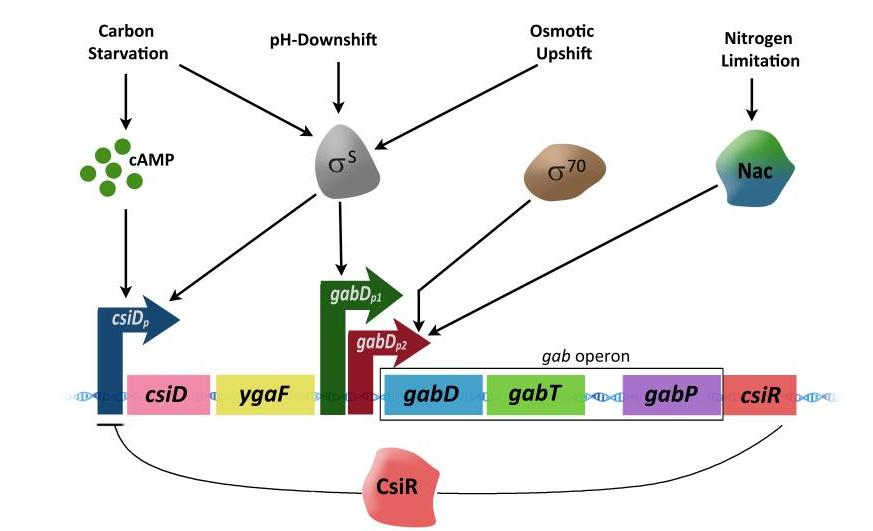 Clearly demonstrates how sigma factor, nac protein and the repressor proteins regulate the activity of the gab operon